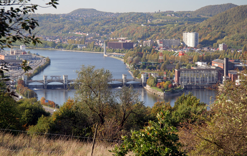 Bridge-dam Monsin, Liège, Belgium Personal picture, I (Jacques Renier, Jrenier) set it "public domain".